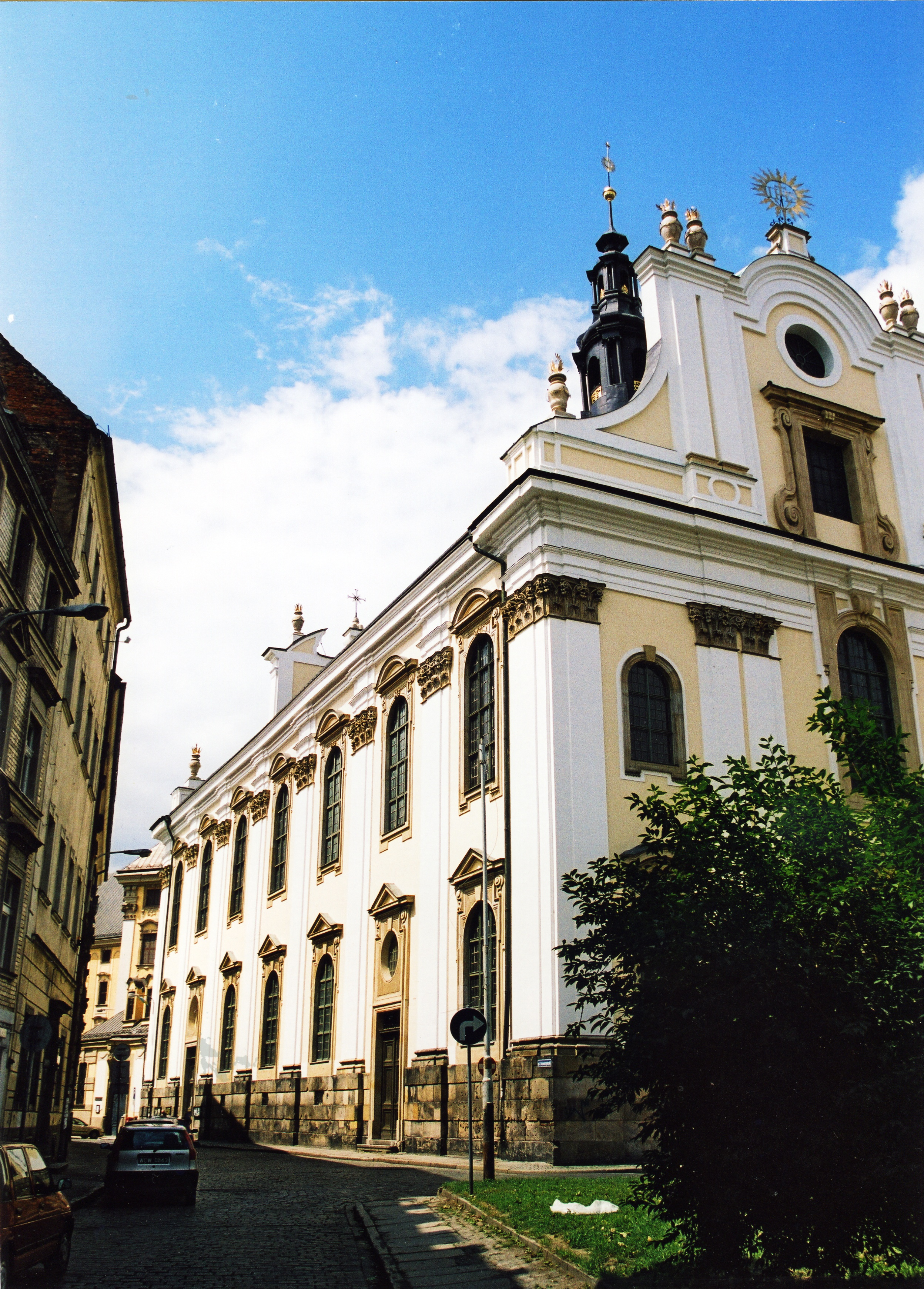 University Church of the Blessed Name of Jesus in Wrocław